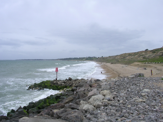 Barton on Sea: groyne, beach and cliff. Looking west along the beach from one of the groynes. The soft cliffs are slowly slipping into the sea, to the dismay of the houseowners at the top of Barton Cliff.